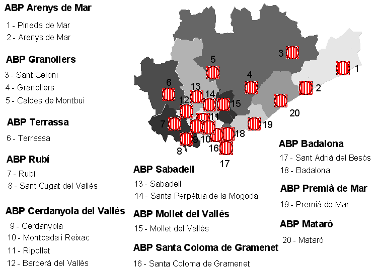 Map of North Metropolitan Police Region and police stations.